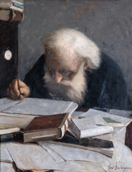 Historian and armenologist Ghevont Alishan